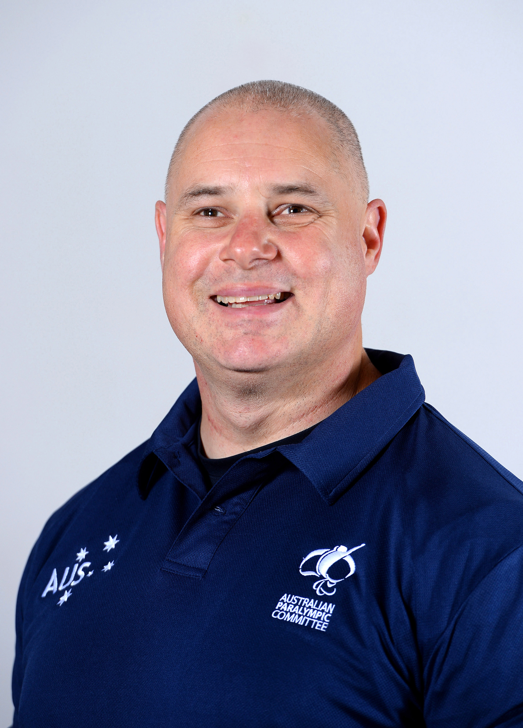 Portrait photograph of Russell Short taken at team processing session for shadow members of 2016 Australian Paralympic team